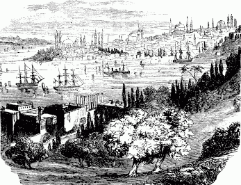 Istanbul (Constantinople)